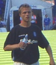 Jesper Grønkjær, then of Birmingham City F.C., warms up before the pre-season game against Osasuna